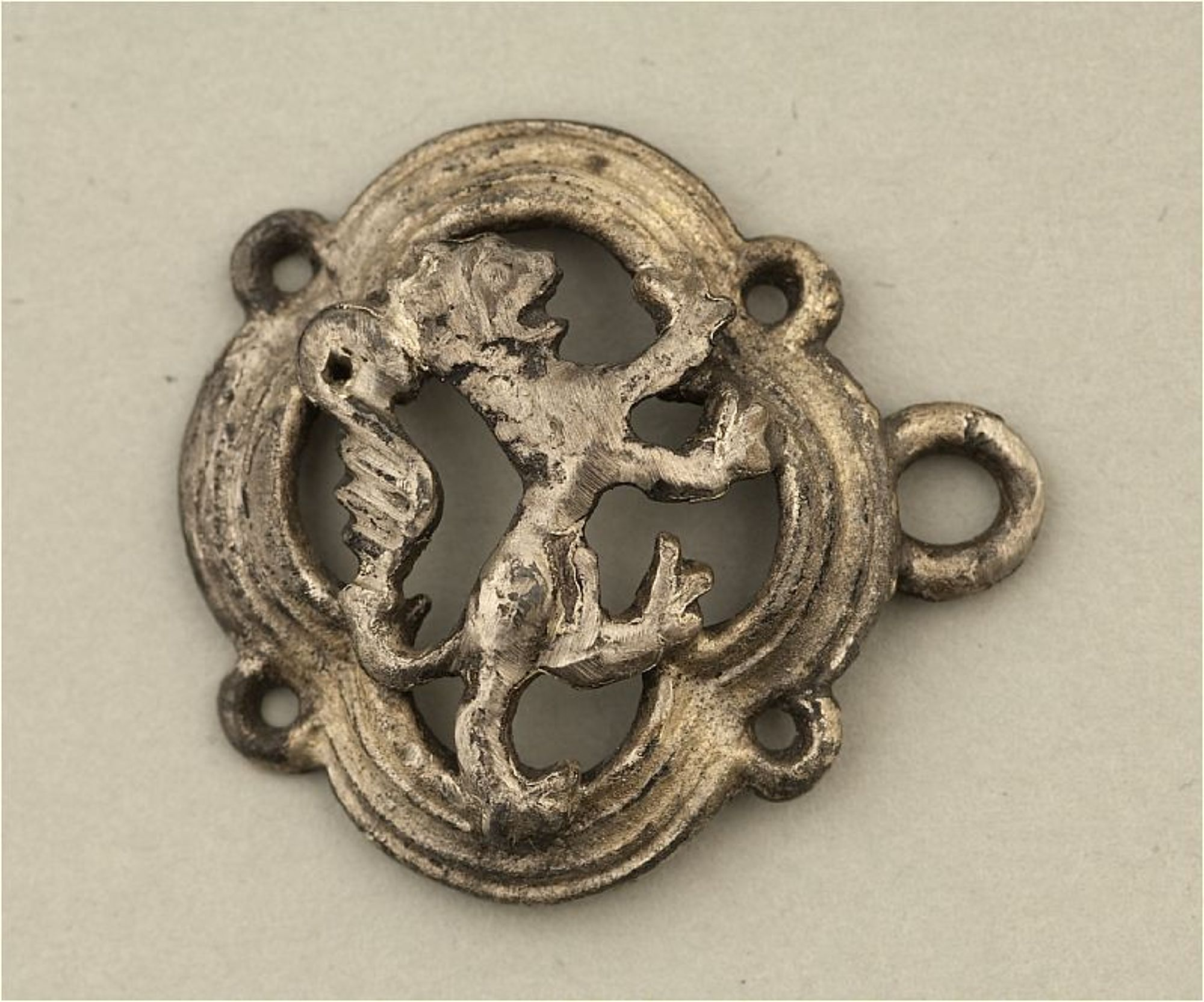 Hyska med Folkungaättens vapen, heraldik. Lejon